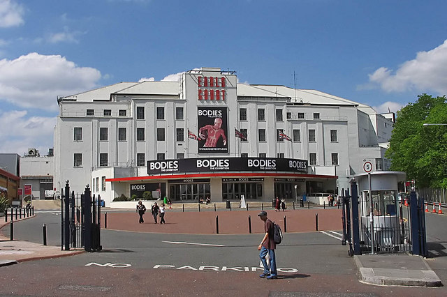 Earls Court One. The original Earls Court Exhibition hall showing the Southern end facing West Brompton Station